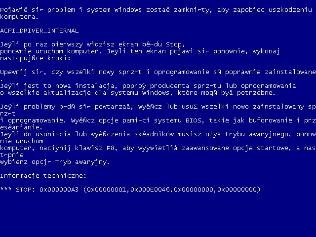 Windows XP or Vista Blue Screen of Death in Polish. Notice mojibake.